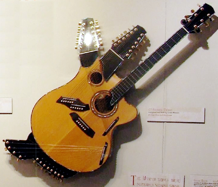 Linda Manzer 42-string Pikasso Guitar (known with the play of Pat Metheny) Harp Guitar Exhibition January 15, 2007 - July 30, 2007 Museum of Making Music